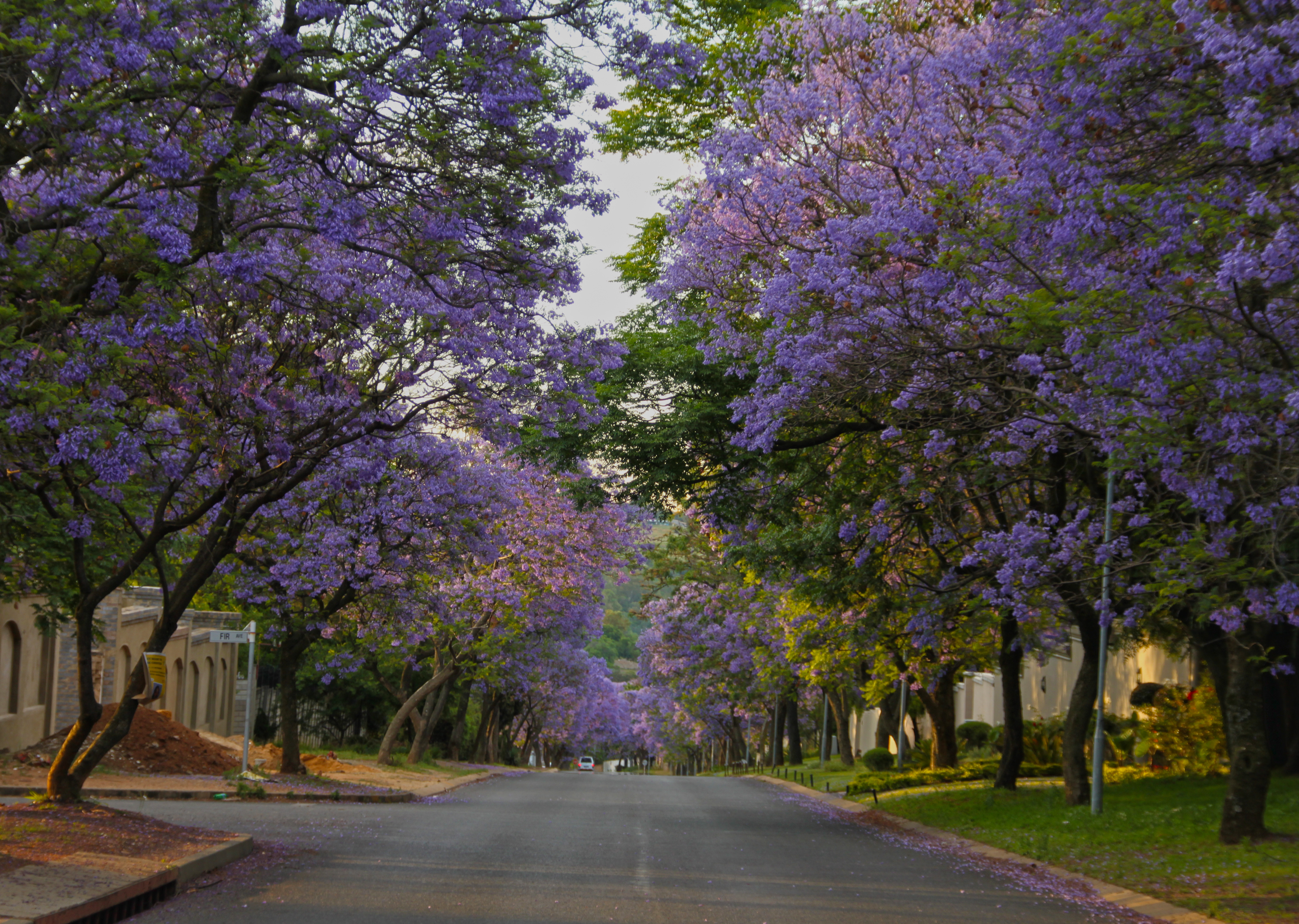 Street lined with Jacarandas in Johannesburg, South Africa